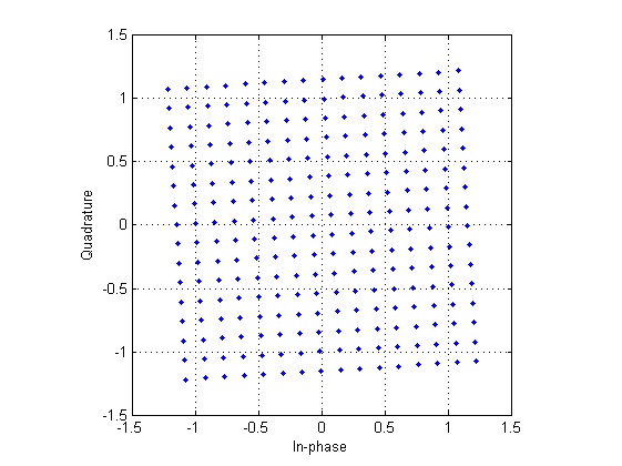 Constellation map of rotated 256 QAM used in DVB-T2 standard